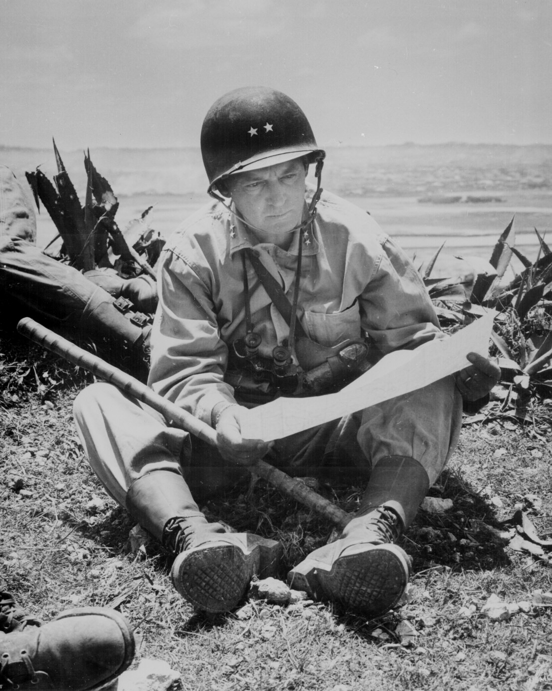 Lemuel C. Shepherd, Jr., USMC: "With the captured capital of Naha as a background, Marine Maj. Gen. Lemuel Shepherd, commanding general of the 6th Marine Division, relaxes on an Okinawan ridge long enough to consult a map of the terrain."